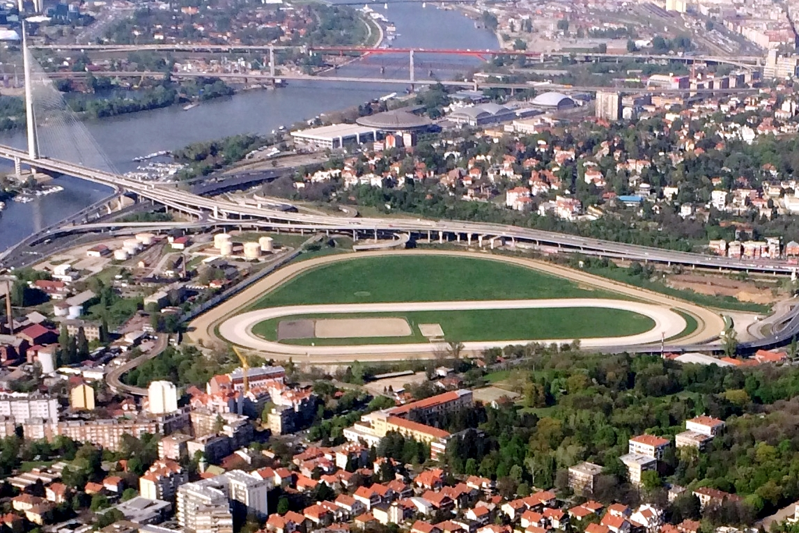 Aerial view of Beograd from the south, with Banovo Brdo (Cukarica) in the front and Senjak (Savski Venac) in the background. The stadium is the Hipodrome Beograd.